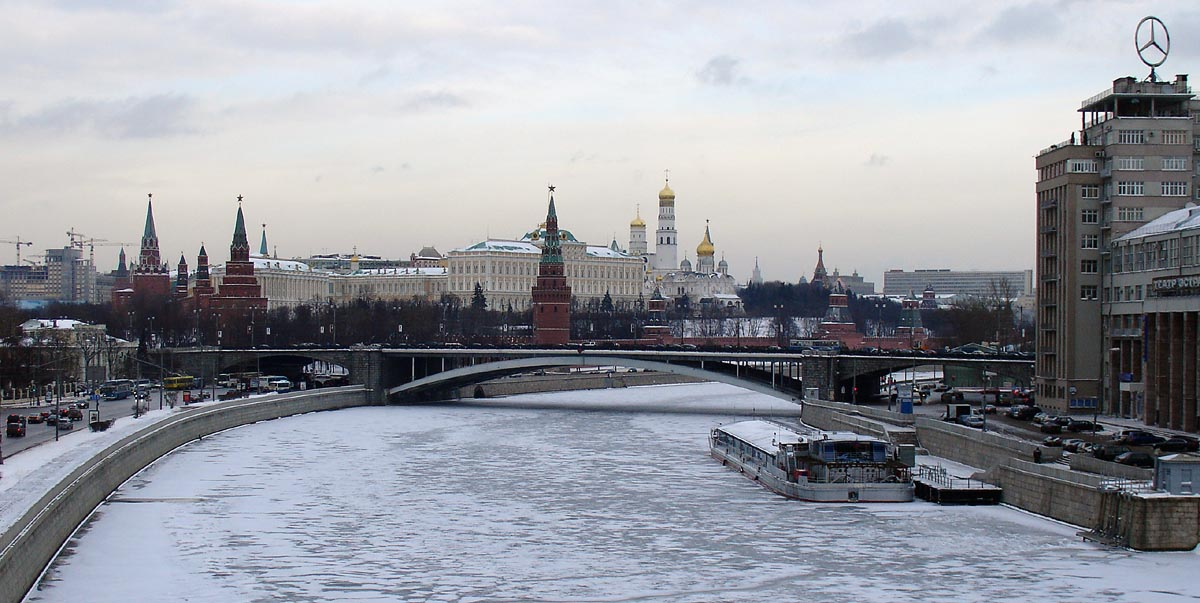 Bolshoy Kamenny Bridge, Moscow, Russia, taken from Patriarshy Bridge. Construction site at far right is rebuilding replica of Moskva Hotel